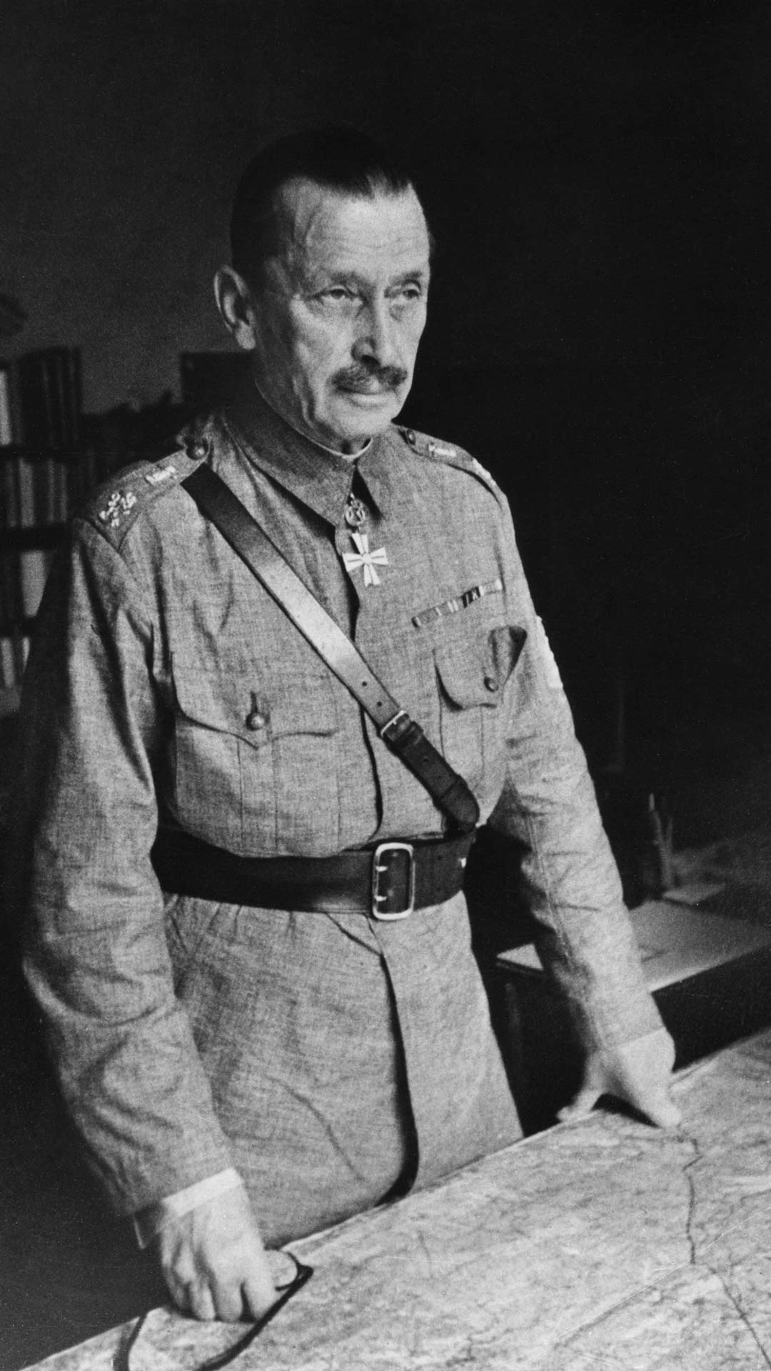 Marshal Carl Gustav Emil Mannerheim in 1941.